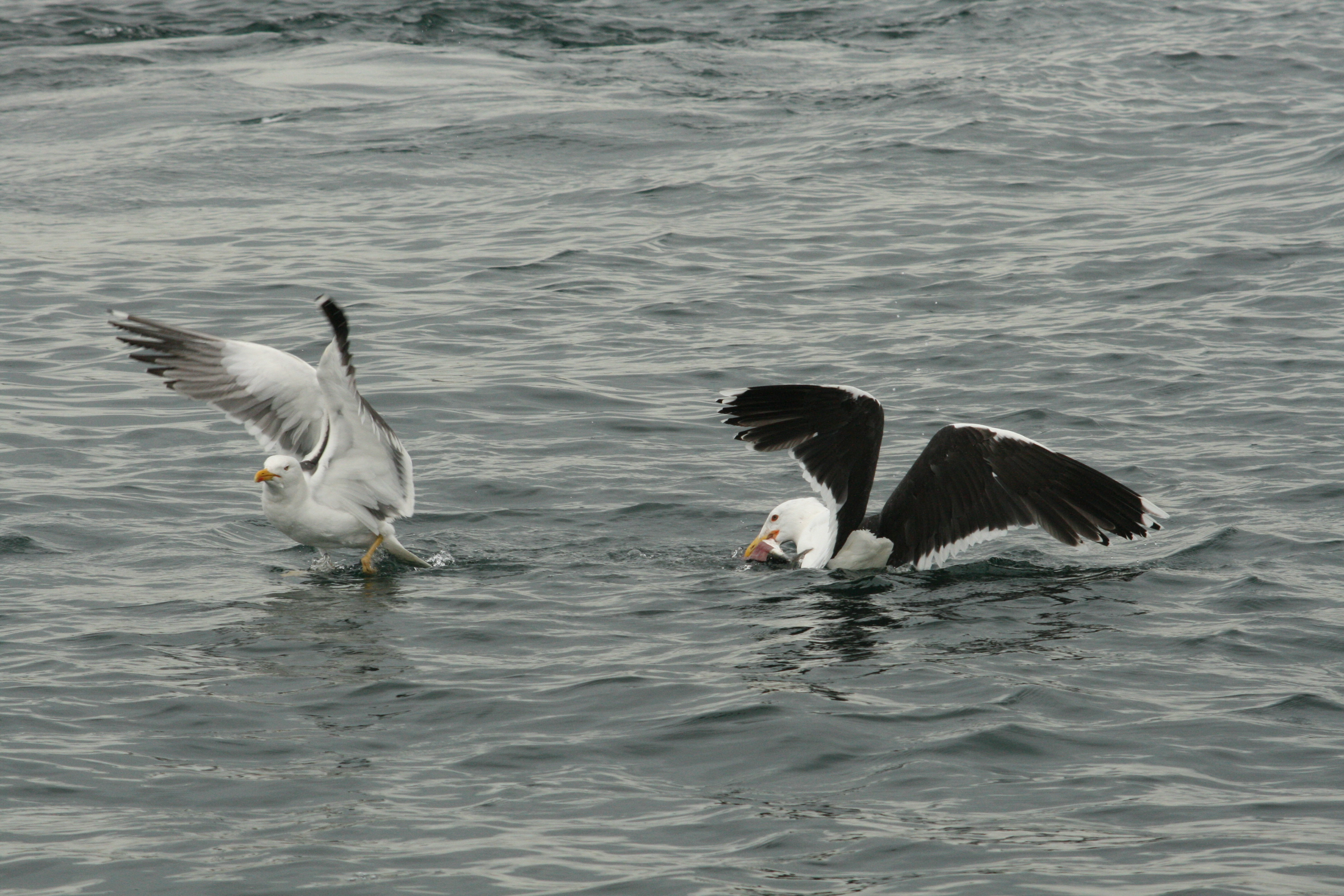 feeding gulls.